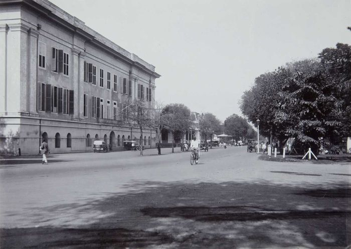 Bojong street with the governor's office